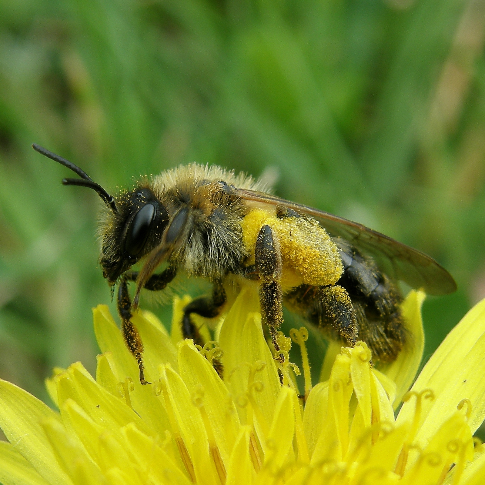 Je suis plutôt satisfait de cette macro sans trépied. I am rather satisfied by this macro without tripod. C'est mieux en grand sur fond noir / It's better when viewed large on black